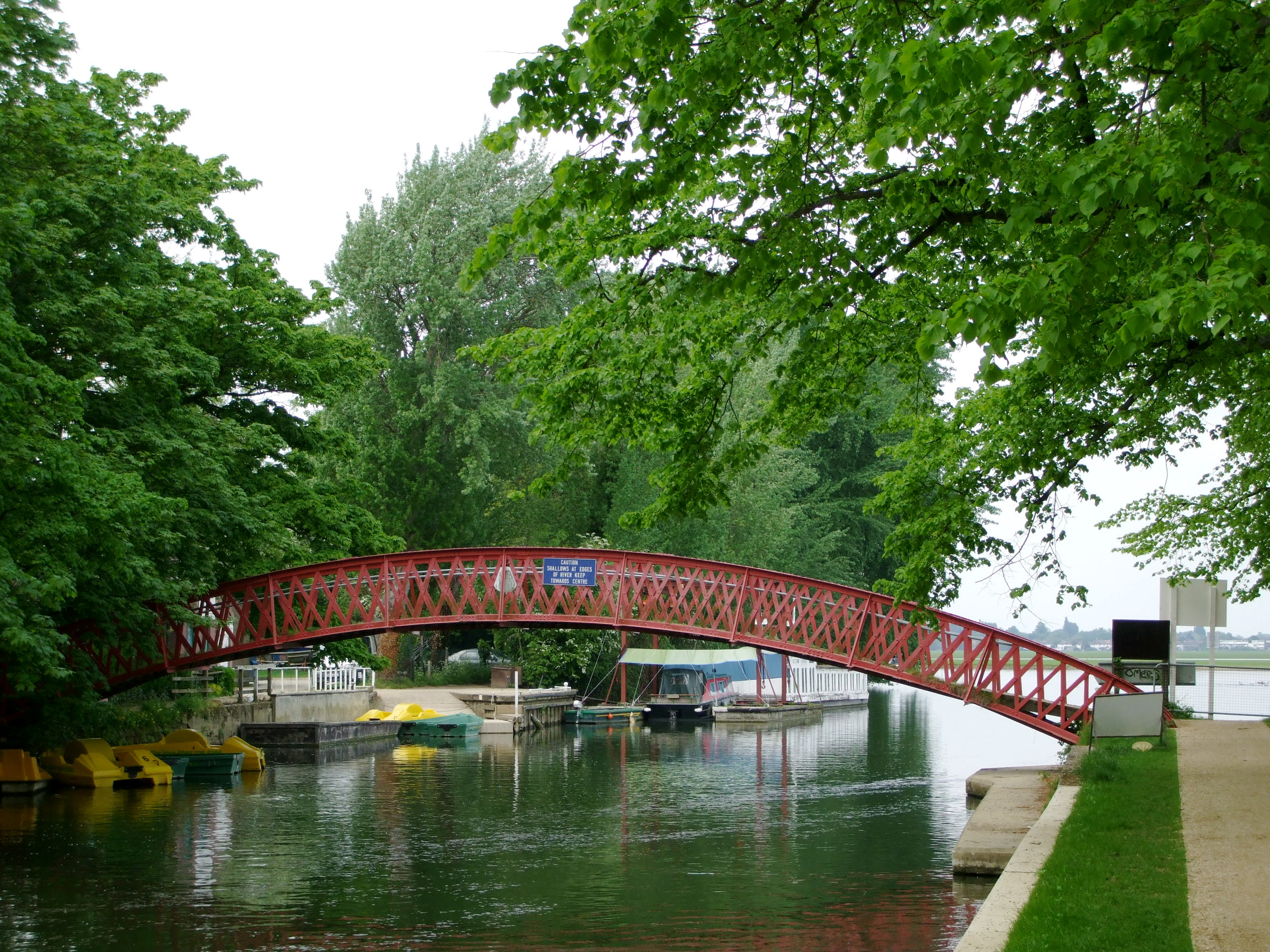 Rainbow Bridge or Medley Footbridge over the River Thames at Binsey, Oxford, England